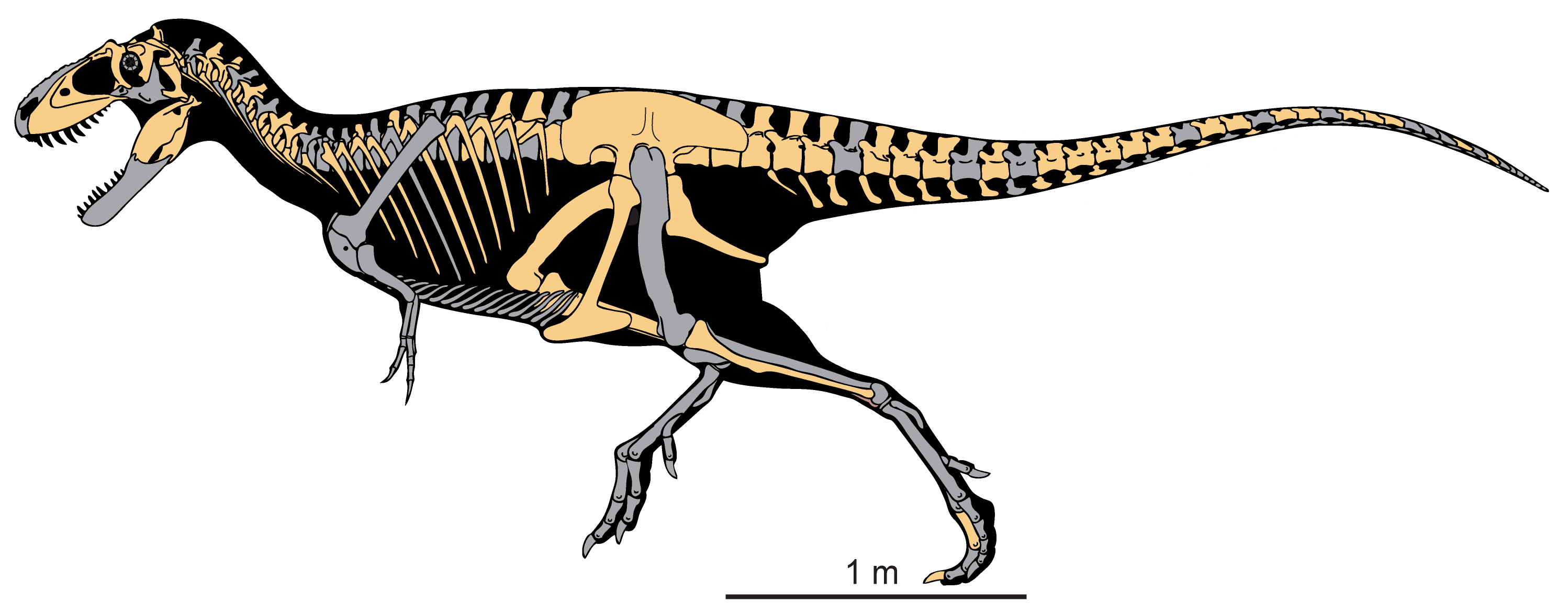 Skeletal outline showing recovered elements of Teratophoneus curriei (UMNH VP 16690)